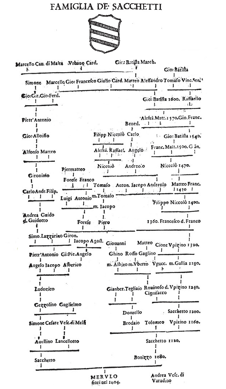 genealogy of the sacchetti family 10th-17th centuries